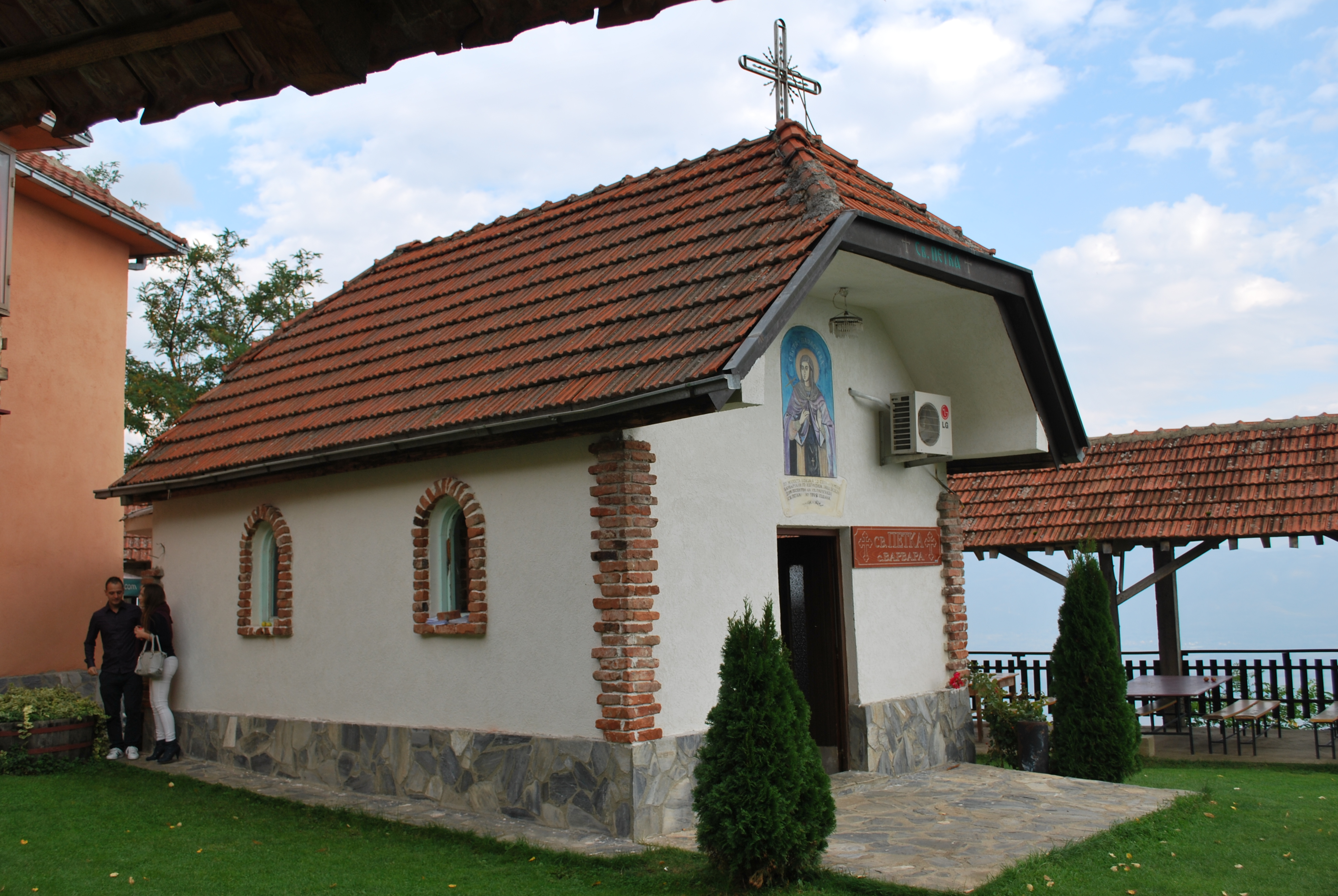 St. Petka Church in Varvara) , Macedonia This image is uploaded as part of the picture contest Wiki Loves Cultural Heritage in Macedonia 2013. English | македонски | +/−